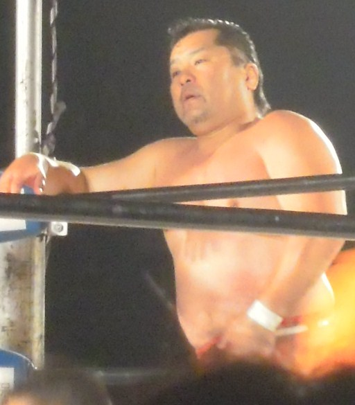 Japanese professional wrestler,Masayoshi Motegi. BJW May 4 2010 Yokohama Cultural Gymnasium.